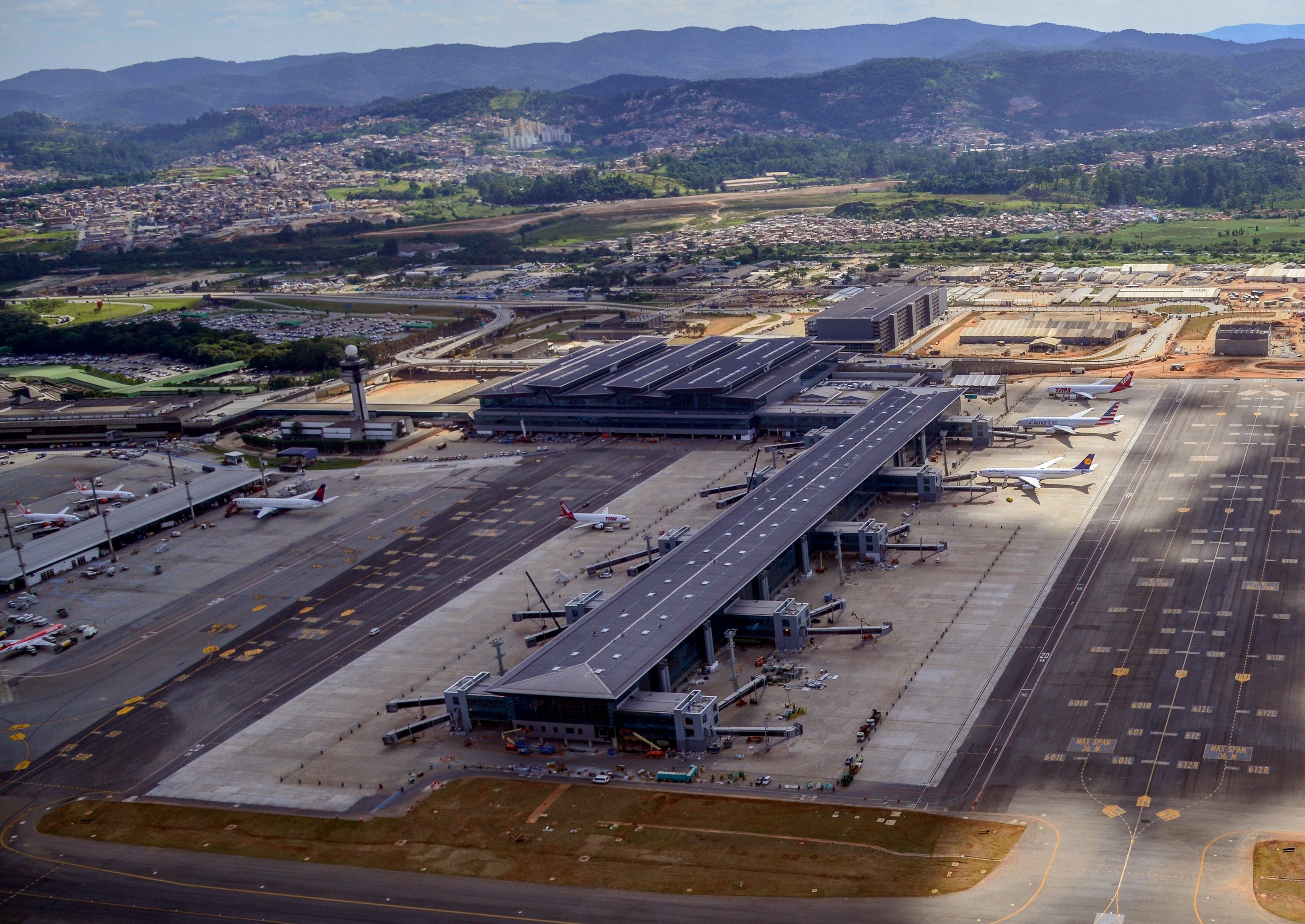 Terminal 3 do Aeroporto Internacional de São Paulo-Guarulhos, Brasil.